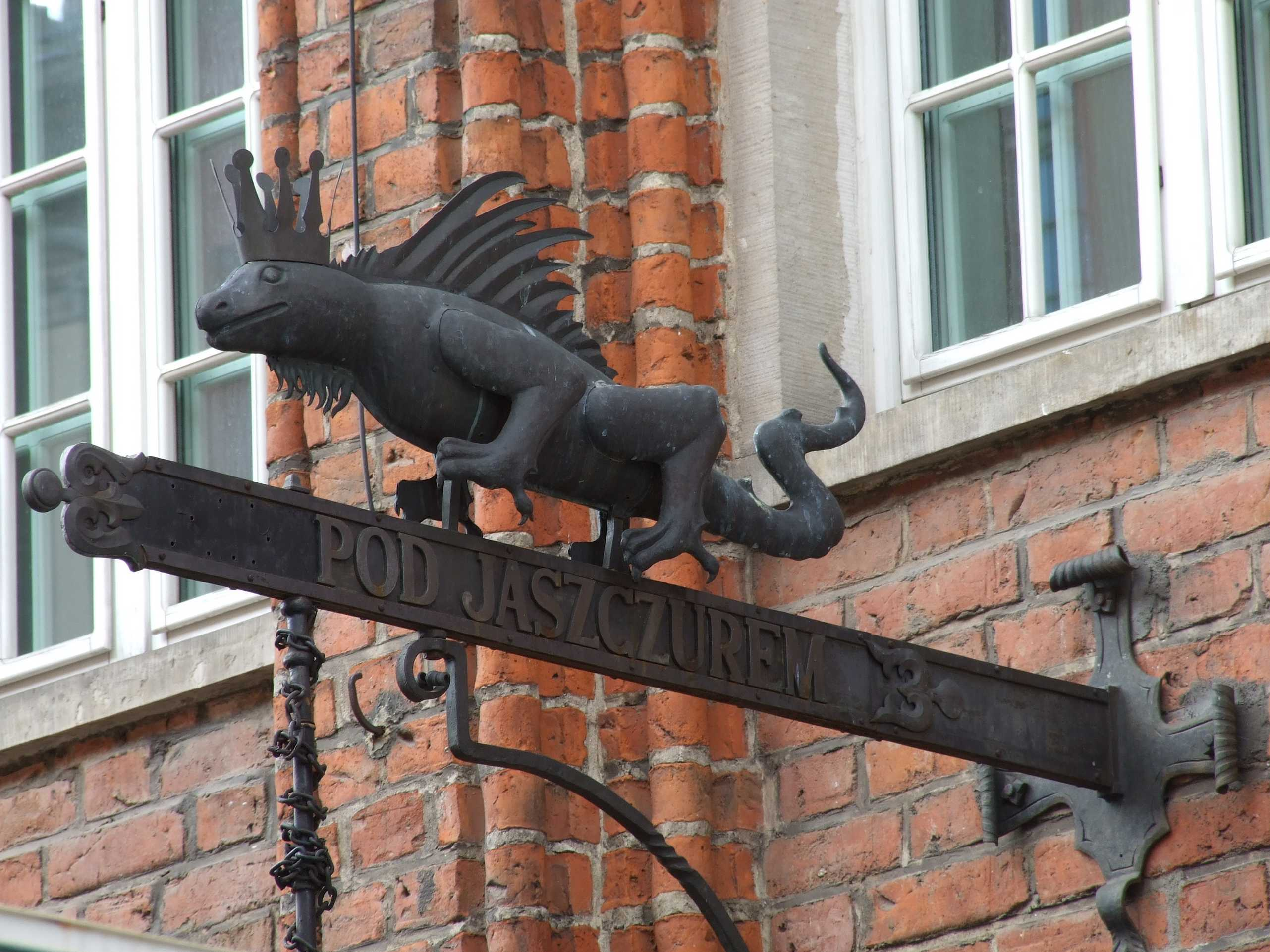 Wrought iron wall bracket, ul. Długa 47, Gdańsk, Poland.